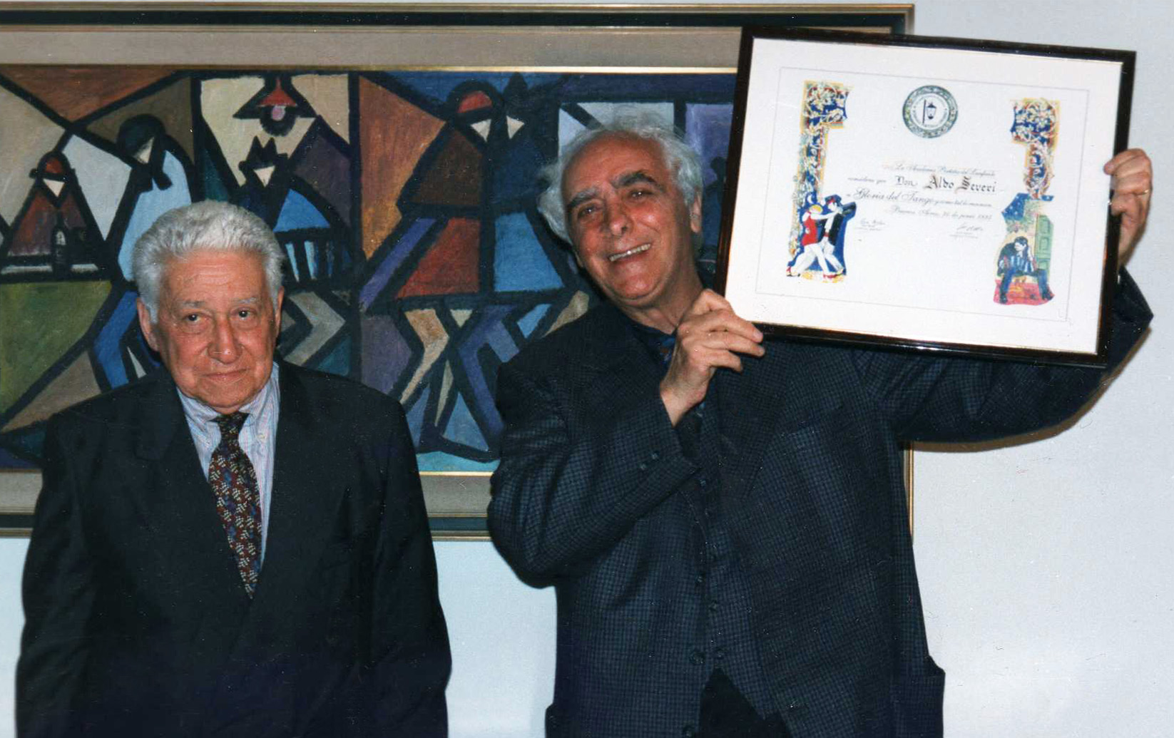 Aldo Severi receives the “Diploma to the Glory of Tango”, from José Gobello, President of the Academy, of Lunfardo. 1997 year.